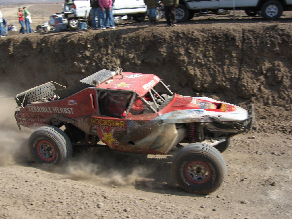 Terrible Herbst truggy racing down in mexico during the baja 250.